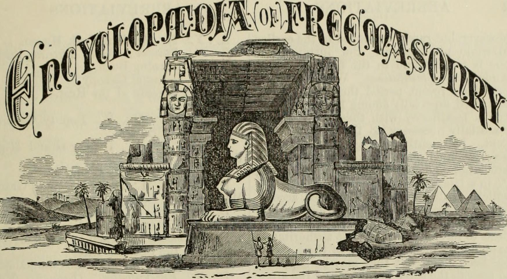 Title: An encyclopaedia of freemasonry and its kindred sciences : comprising the whole range of arts, sciences and literature as connected with the institution Year: 1887 (1880s) Authors: Mackey, Albert Gallatin, 1807-1881 McClenachan, Charles T. (Charles Thompson) Subjects: Freemasonry Freemasonry Publisher: Philadelphia : L.H. Everts Text Appearing Before Image: ' Text Appearing After Image: AARON A. ABBREVIATIONS Aaron. Hebrew pnx, Aharon, a wordof doubtful etymology, but generally sup-posed to signify a mountaineer. He was thebrother of Moses, and the first high priestunder the Mosaic dispensation, whence thepriesthood established by that lawgiver isknown as the Aaronic. He is alludedto in the English lectures of the seconddegree, in reference to a certain gign whichis said to have taken its origin Iroin the factthat Aaron and Hur were present on thehill from which Moses surveyed the battlewhich Joshua was waging with the Amale-kites, when these two supported the wearyarms of Moses in an upright posture, be-cause upon his uplifted hands the fate of thebattle depended. (See Exodus xvii. 10-12.) Aaron is also referred to in the lattersection of the Royal Arch degree in connec-tion with the memorials that were depositedin the ark of the covenant. In the degreeof Chief of the Tabernacle, which is the23d of the Ancient and Accepted Rite, thepresiding officer represents Aaron